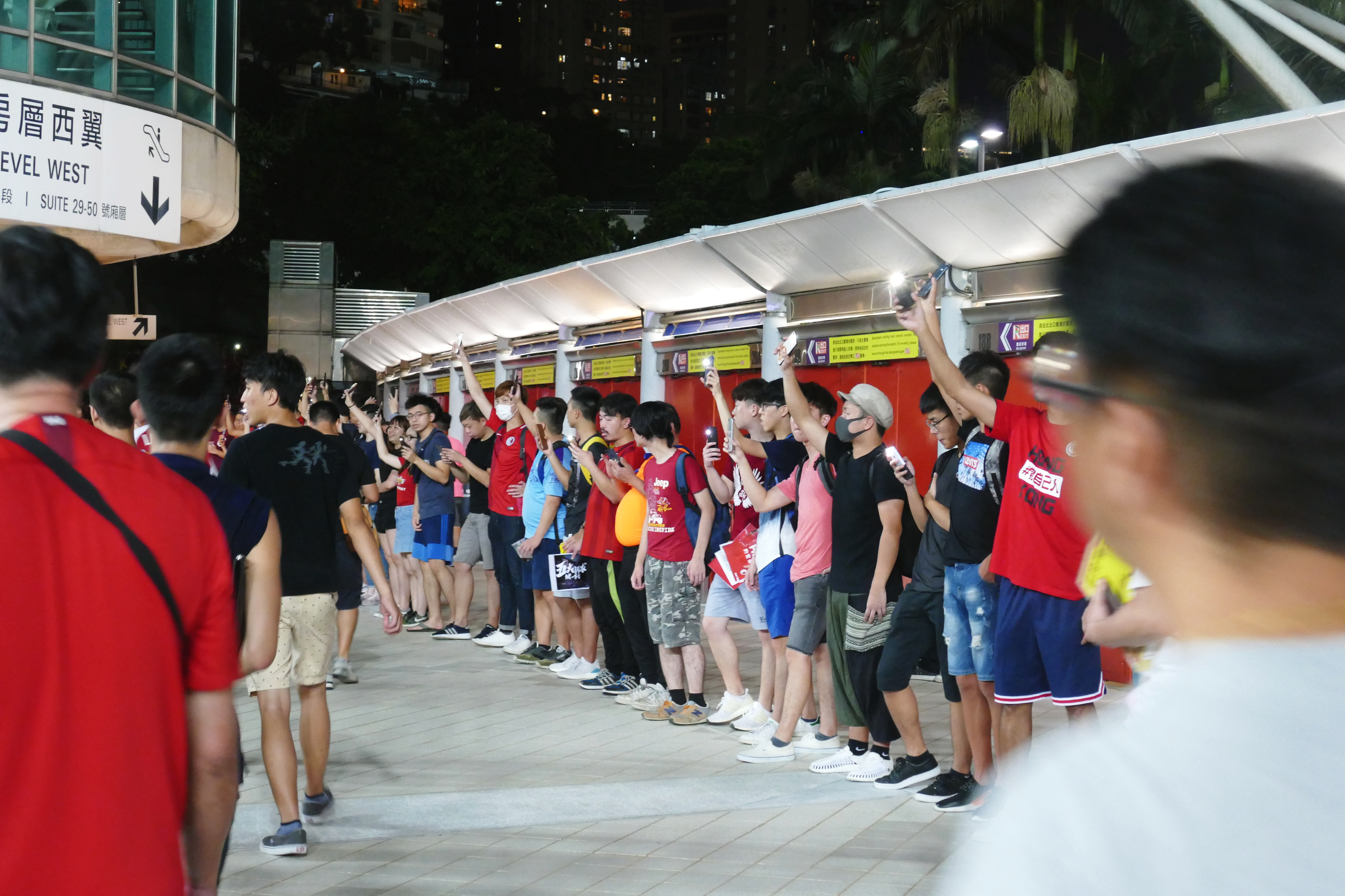 世盃外港戰伊朗 球迷紅黑衫大唱願榮光歸香港 Thousands gathered at Hong Kong Stadium and sang their new ‘National Anthem’ before the World Cup qualifier HK vs Iran